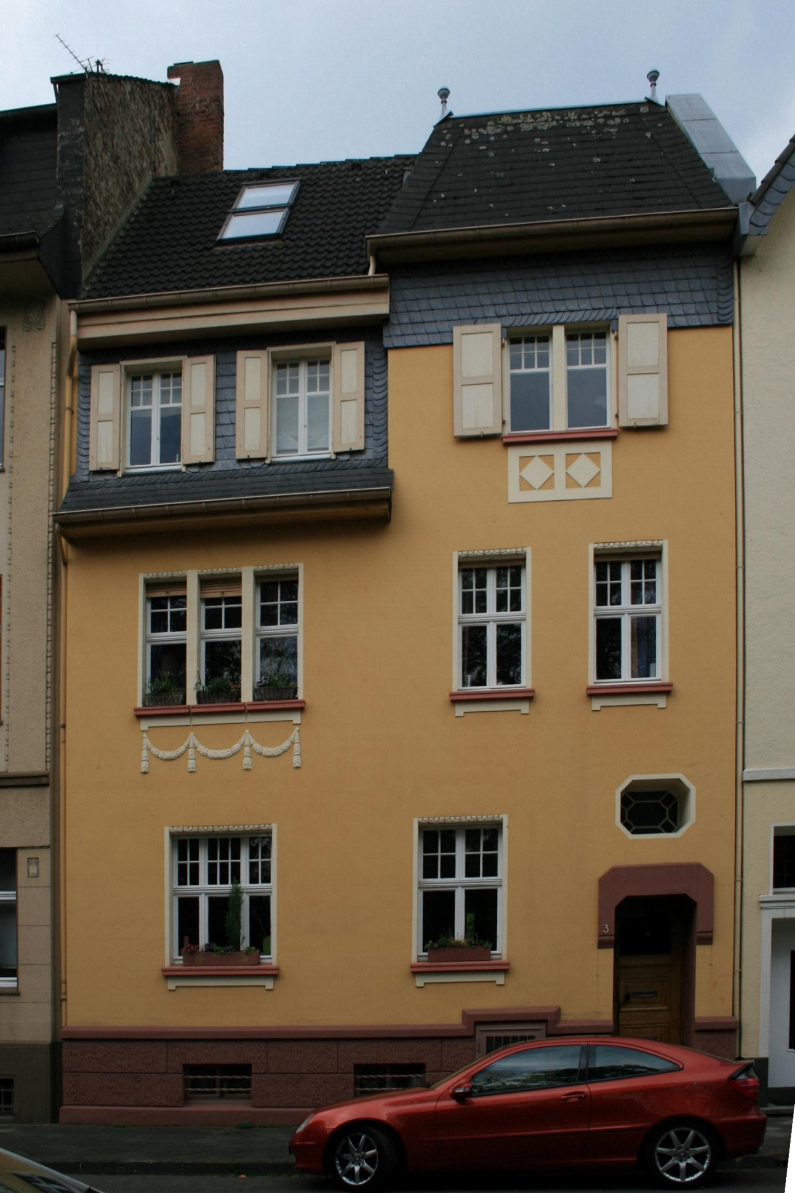 Cultural heritage monument No. B 136 in Mönchengladbach